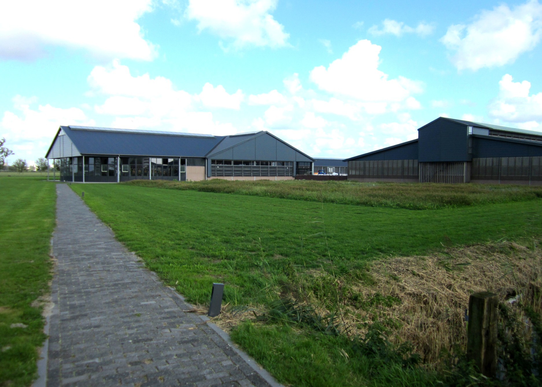 Dairy barns at the Dairy Campus in Leeuwarden/Ljouwert, part of Wageningen University & Research. The path leads straight to the part of the barn where the milking parlor is.